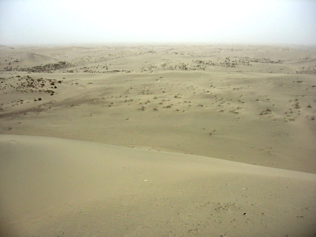 Landscape in Taklamakan desert near Yarkand, Autonomous Region of Xinjiang, China.